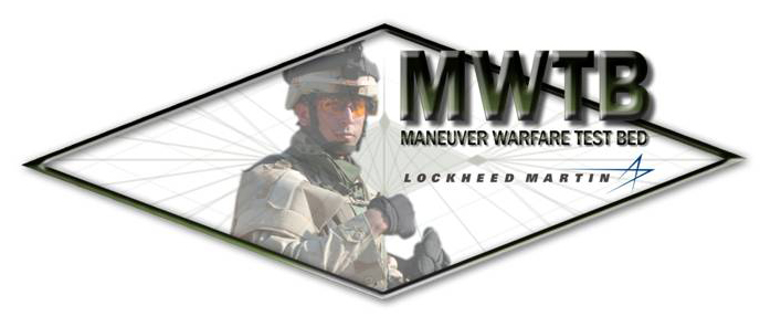 MWTB Logo from 2009